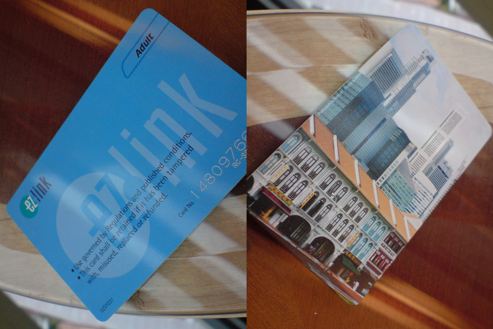 This is the current (as of 2013) model of the EZ-Link card for Singapore, with both front and back views displayed.